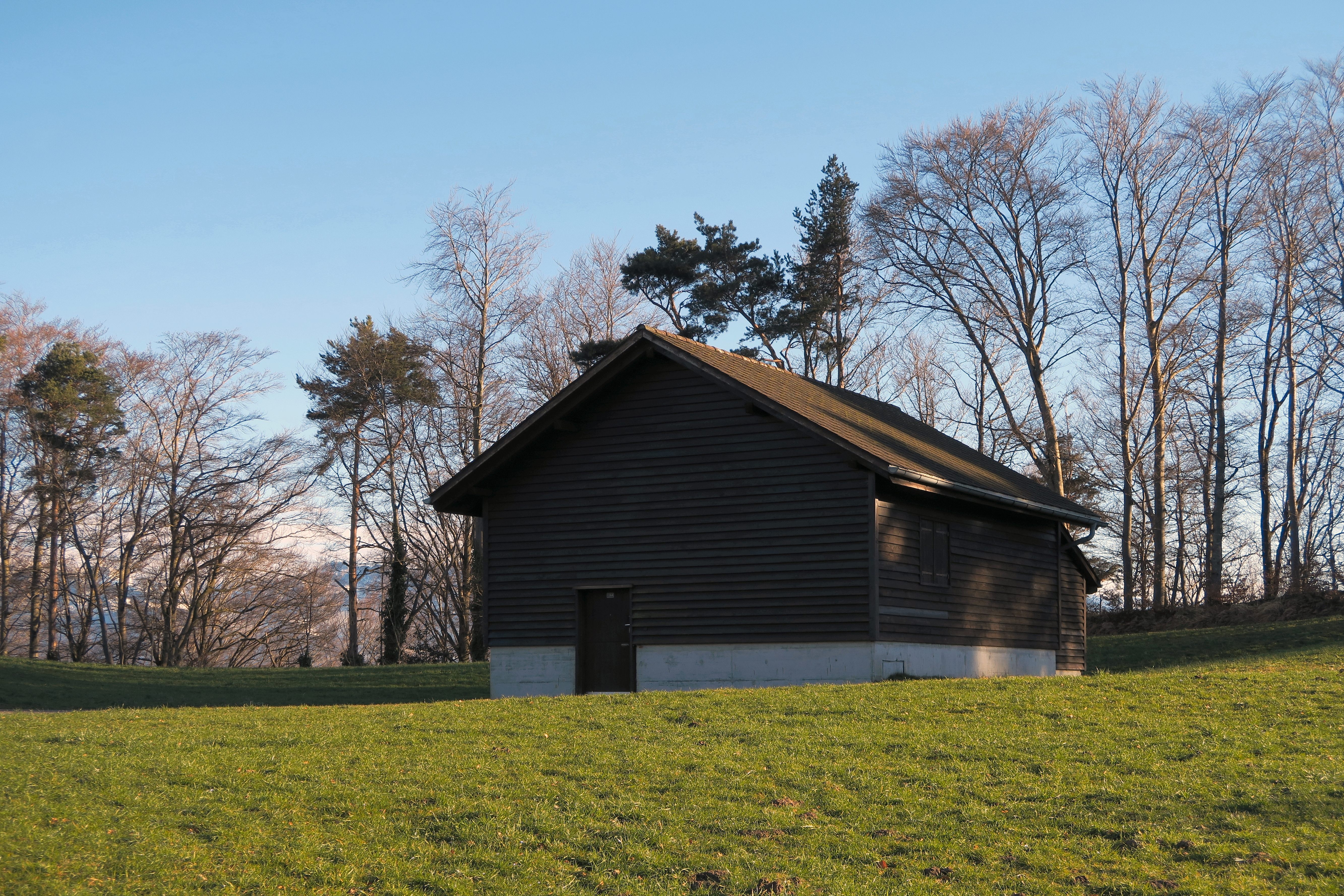 A typical building of the Swiss army. Massive concrete base, an almost too well-kept wooden building and everything well closed. Access to an underground plant from the early eighties. It belonged to the stationary artillery in bunkers which no longer exists since 2011. The movable lid for two barrels of caliber 12 cm is covered with soil. Of these compact installations, there are just over a hundred, and they can fire smart munitions of type STRIX. A small part of them was dismantled and decommissioned. At all the rest only the ammunition was removed. It seems that's not easy for the army to separate from this powerful weapon system, and it is also spoken about a possibly reactivation. With a practical range of about 9 km at a firing rate of 20 rounds per minute they can reach all important strategic points in Switzerland. Feb 5, 2016.